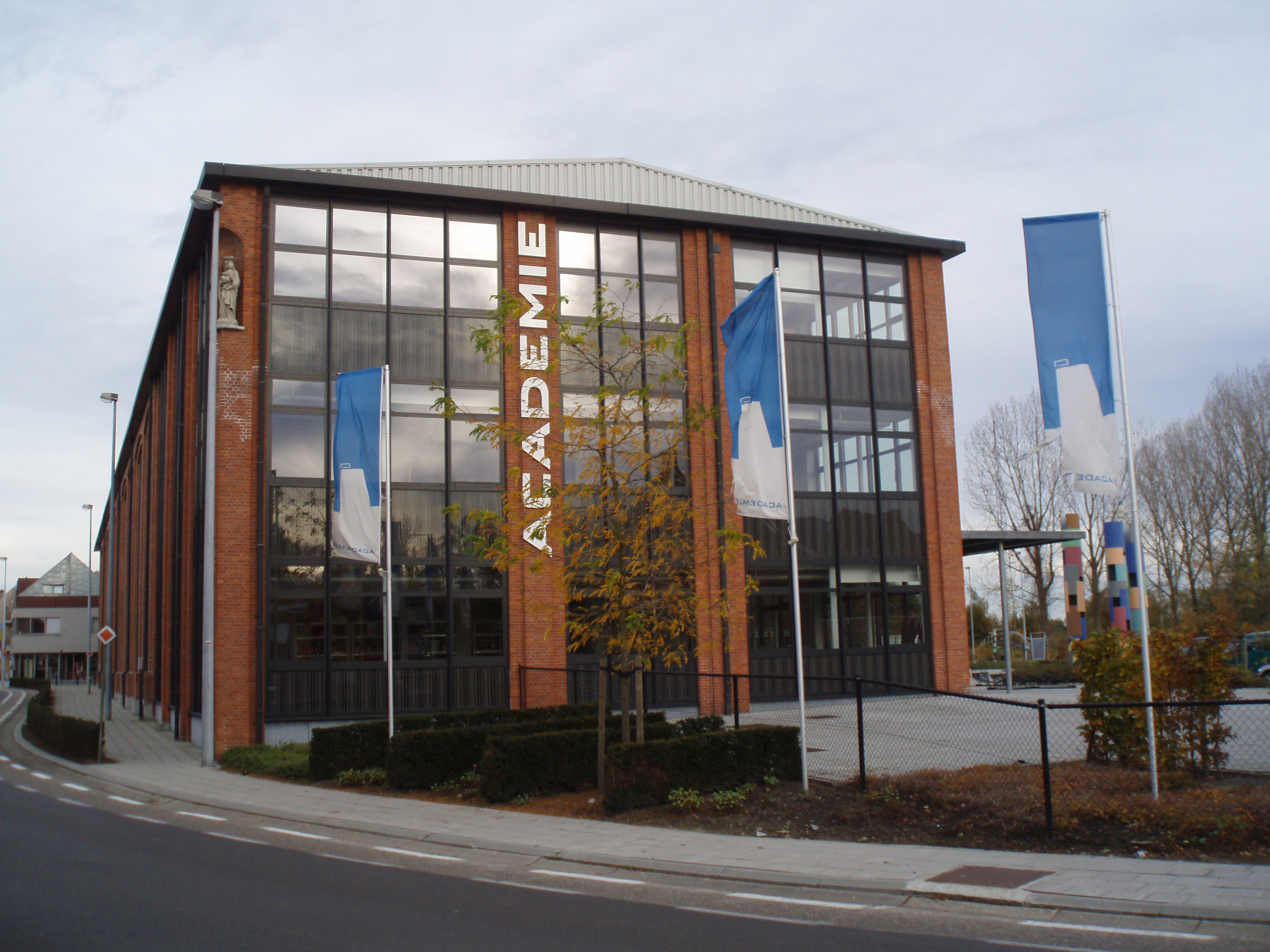 Academie of Arts, Arendonk, Belgium. Former cigar factory.